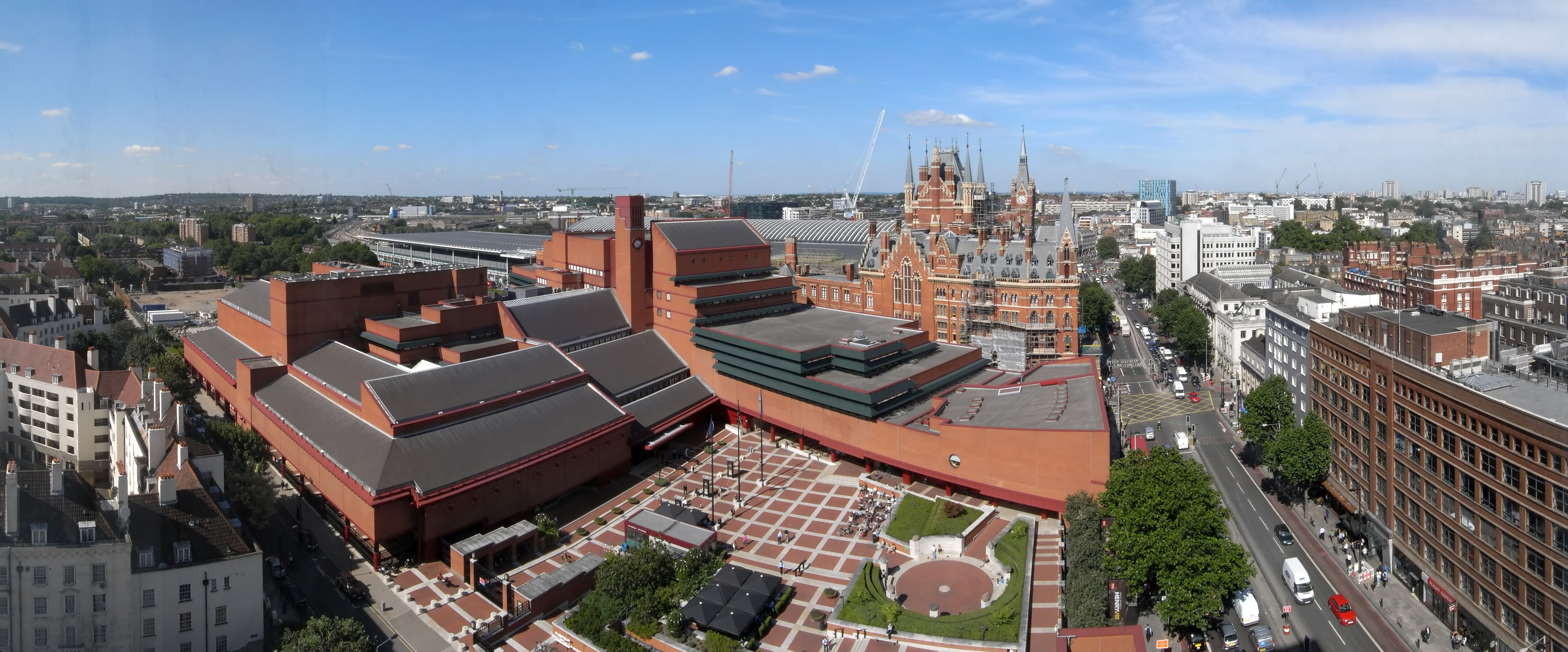 British Library (modern building in foreground) and St Pancras station (spires further back) with Euston Road on the right, London. Panorama made from 5 photos using Hugin. Camera Ricoh GX100. Photos taken through glass window, which was not entirely clean.